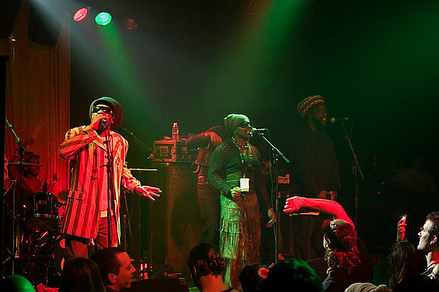 Black Uhuru feat. Michael Rose